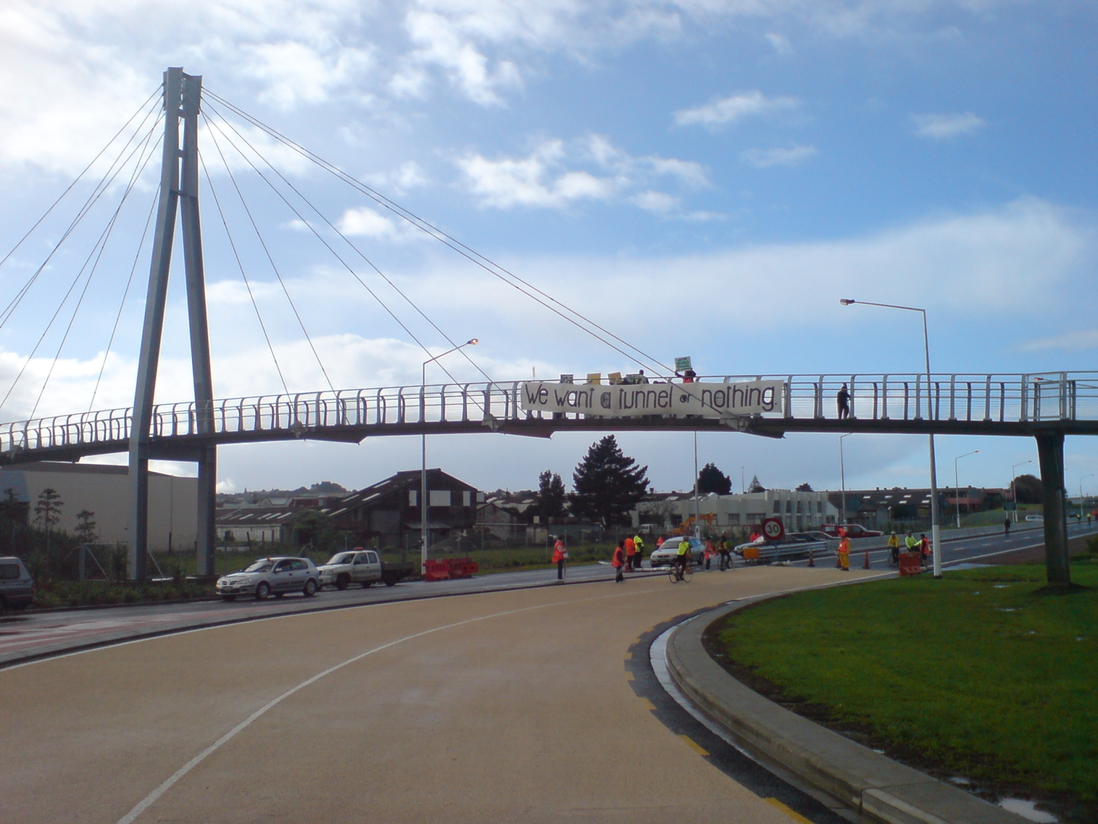 Protestors against above-ground options for the State Highway 20 Waterview Extension in Auckland City, New Zealand. During the walking / cycling open day on the State Highway 20 Extension, shortly before opening.